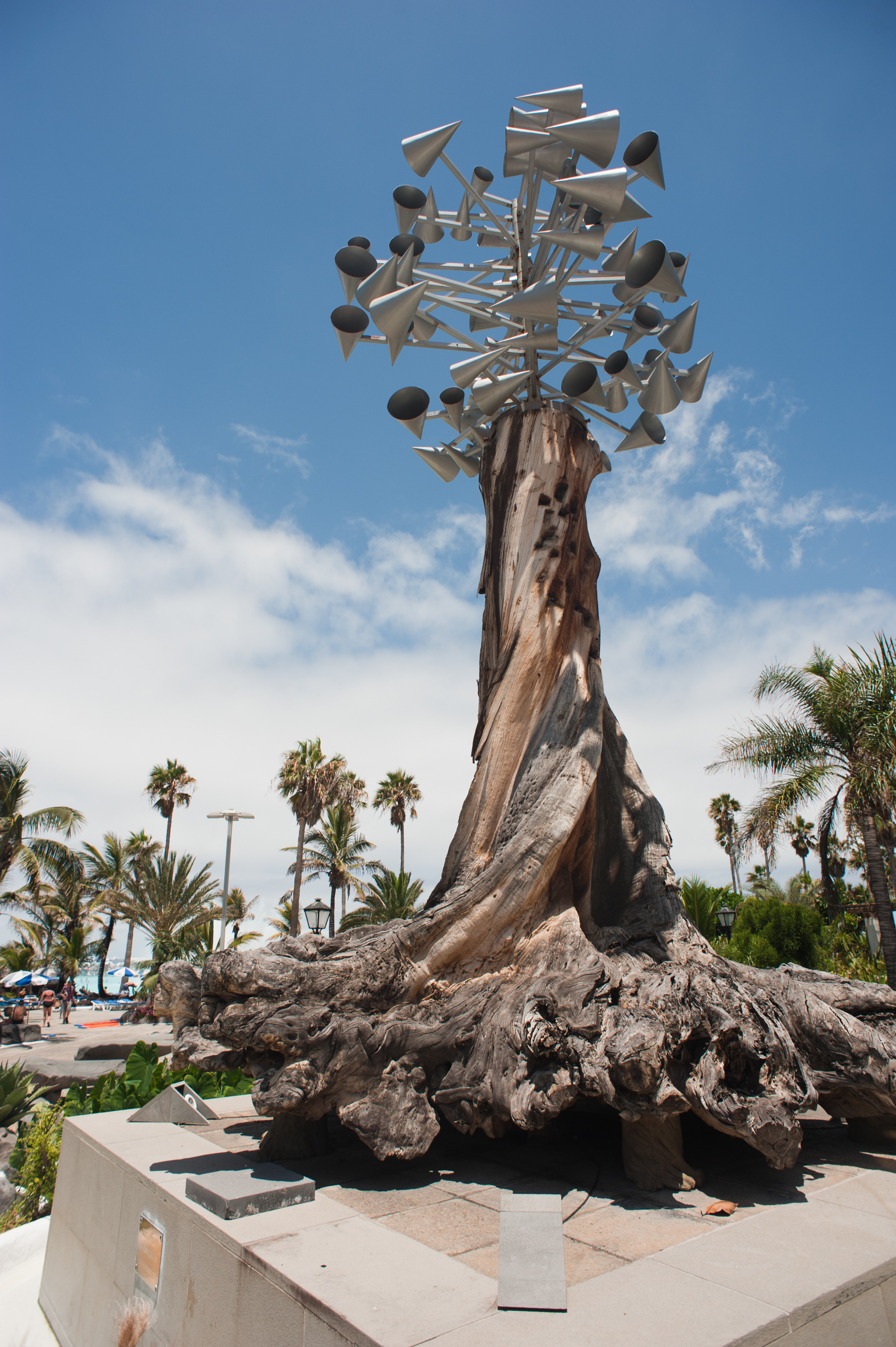 Cesar Manrique sculpture on Columbus Avenue. Puerto de la Cruz, Tenerife, Canary Islands, Spain, Southwestern Europe.